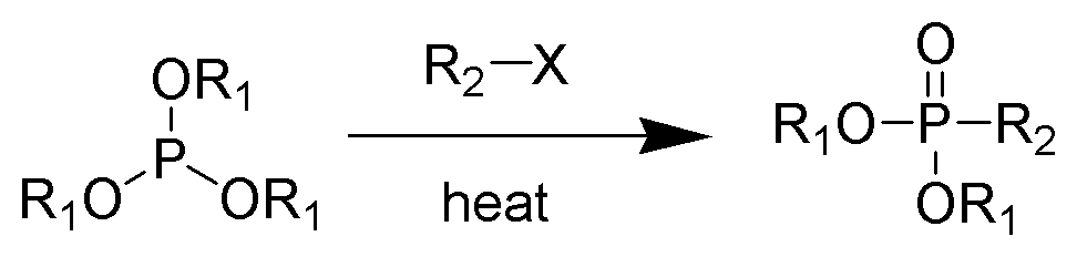 Reaction scheme of the Michaelis-Arbuzov reaction.